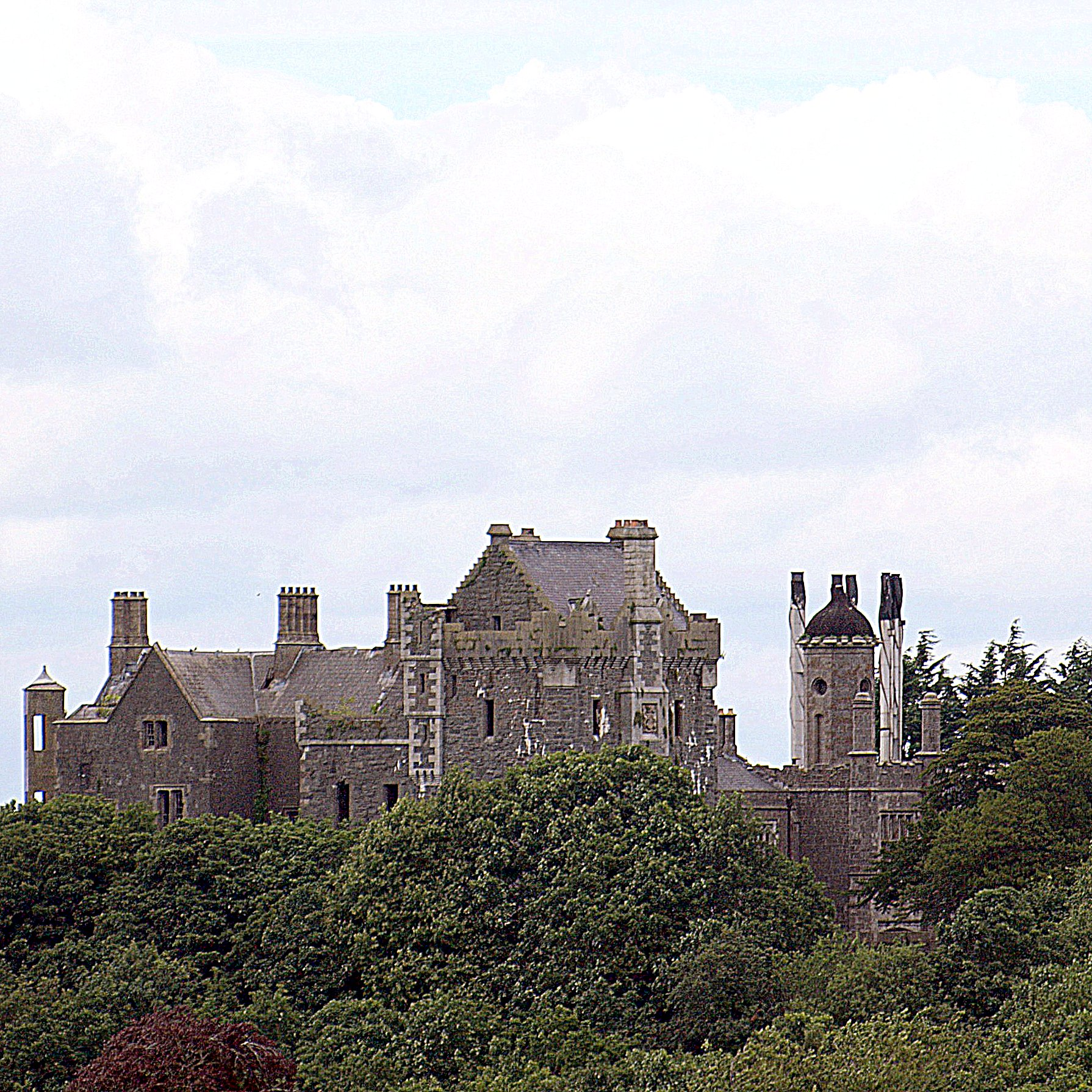 The ruins of Tanderagee Castle.